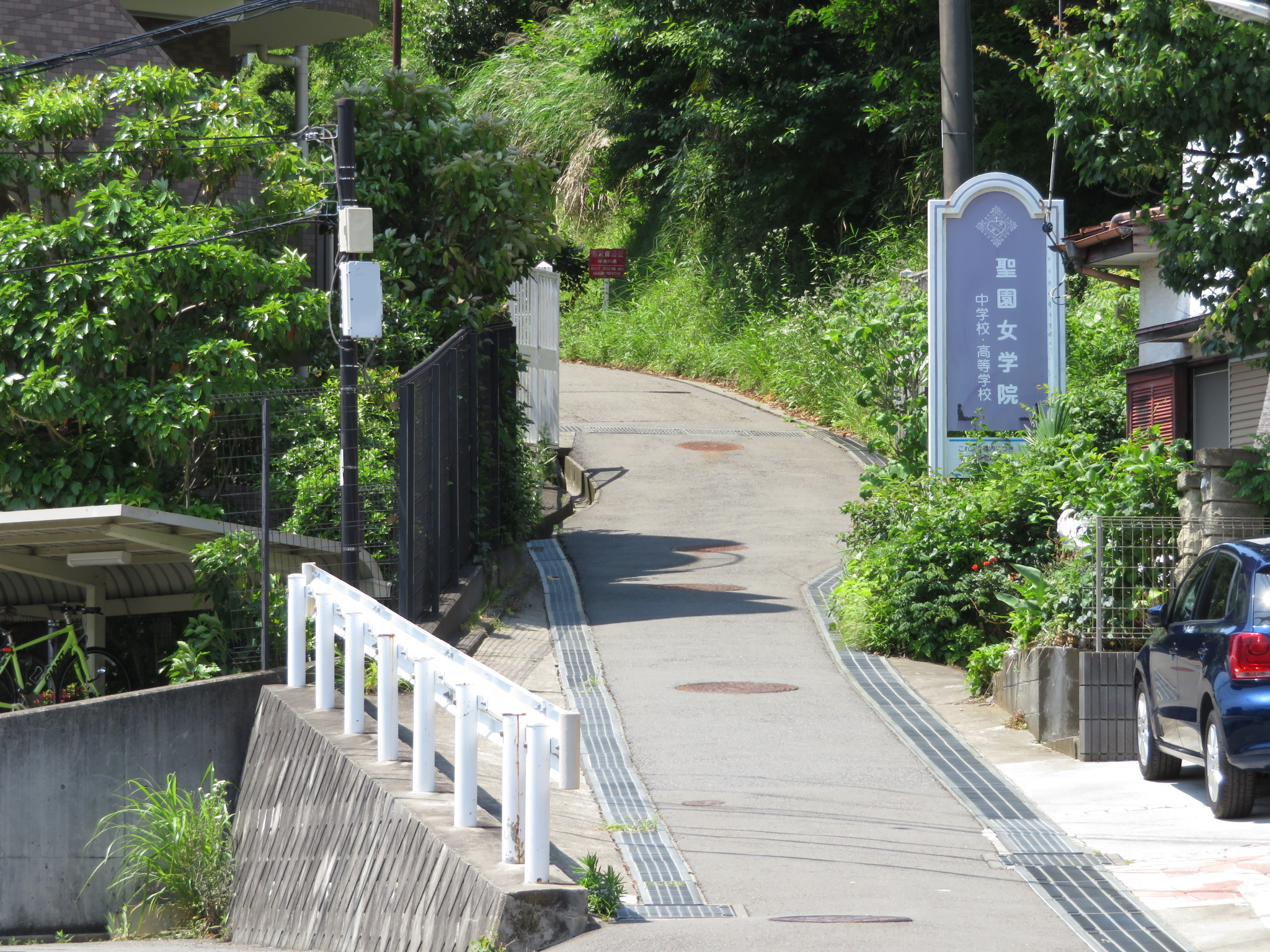 Sirahata-zaka(slope) in Fujisawa City, Kanagawa Prefecture, Japan